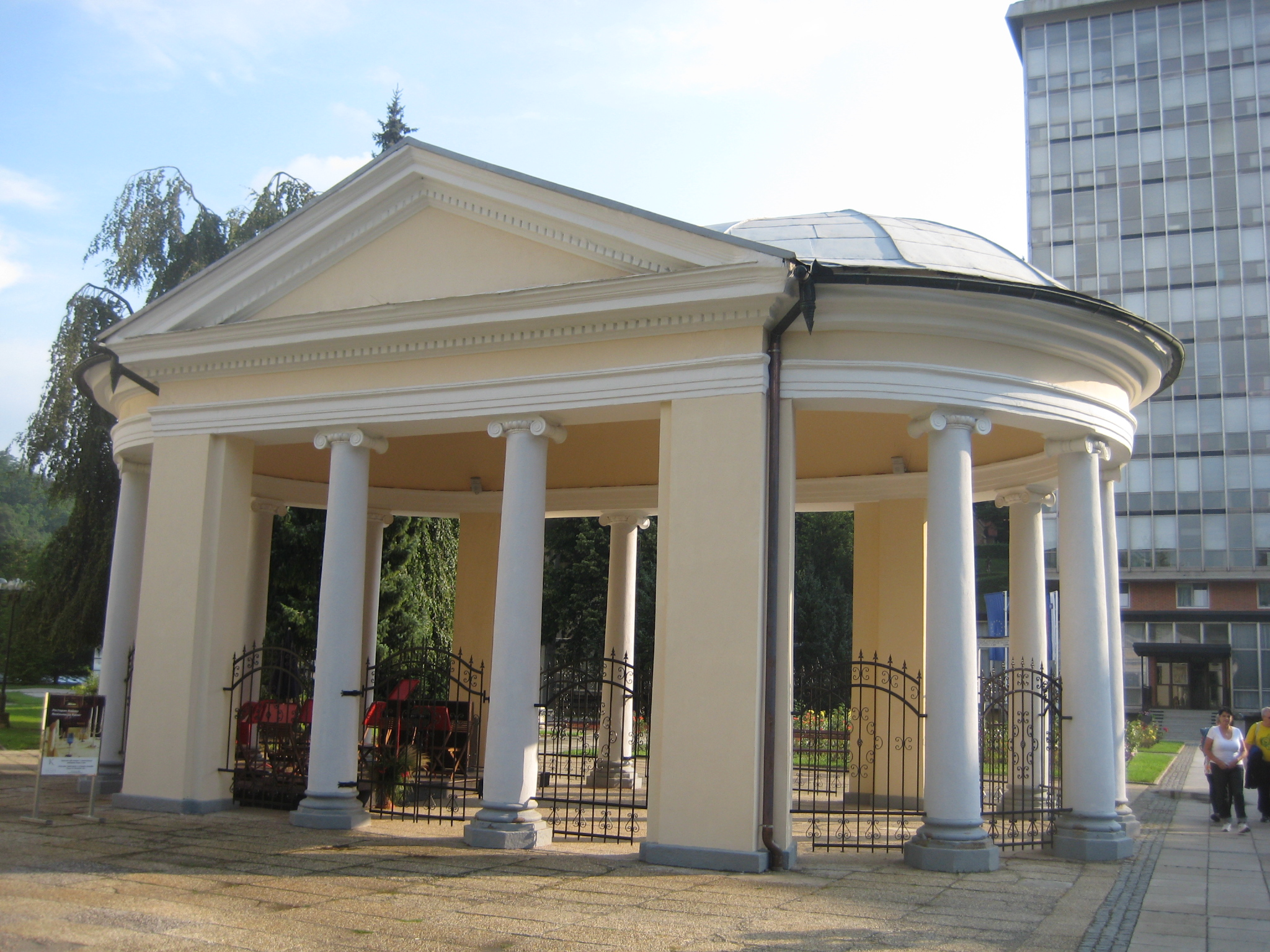 Tempel Pavilion. Rogaška Slatina, Slovenia. Built in 1819.